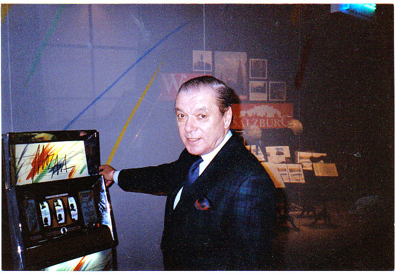 Peter Weiser, on behalf of the City of Vienna coordinator of the Mozart Year 1991 in Vienna, at a "Mozart Wurlitzer" on the Vienna-Salzburg Mozart booth at the ITB, the international travel trade show, in Berlin in March, 1990